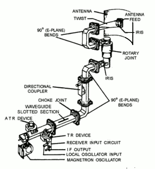 A waveguide feedline for a typical military radar. This type is called a keyed-oscillator transmitter. The magnetron vacuum tube oscillator (lower left) produces short high power pulses of microwave energy, which are conducted up the waveguide line to the parabolic antenna. The TR switch is turned off to protect the delicate receiver circuits from the high power output pulse. Between the pulses the weak radar return from the target is received by the antenna and passes down the waveguide. The TR switch is turned on, admitting the return signal to the receiving circuit which consists of a mixer diode. A microwave signal from a local oscillator is also applied. The two frequencies mix in the diode and create a lower intermediate frequency which is applied to the radar receiver.